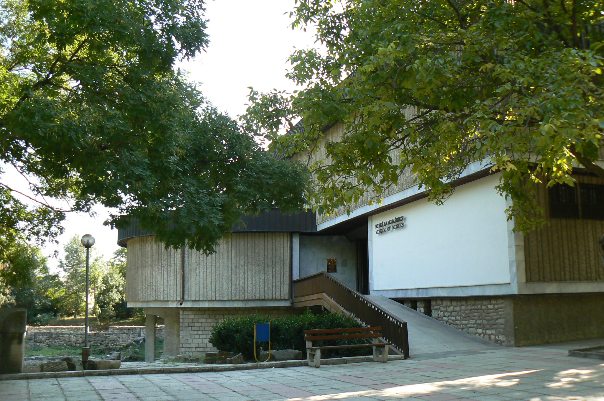 The building of the Devnya Museum of Mosaics — in Bulgaria.